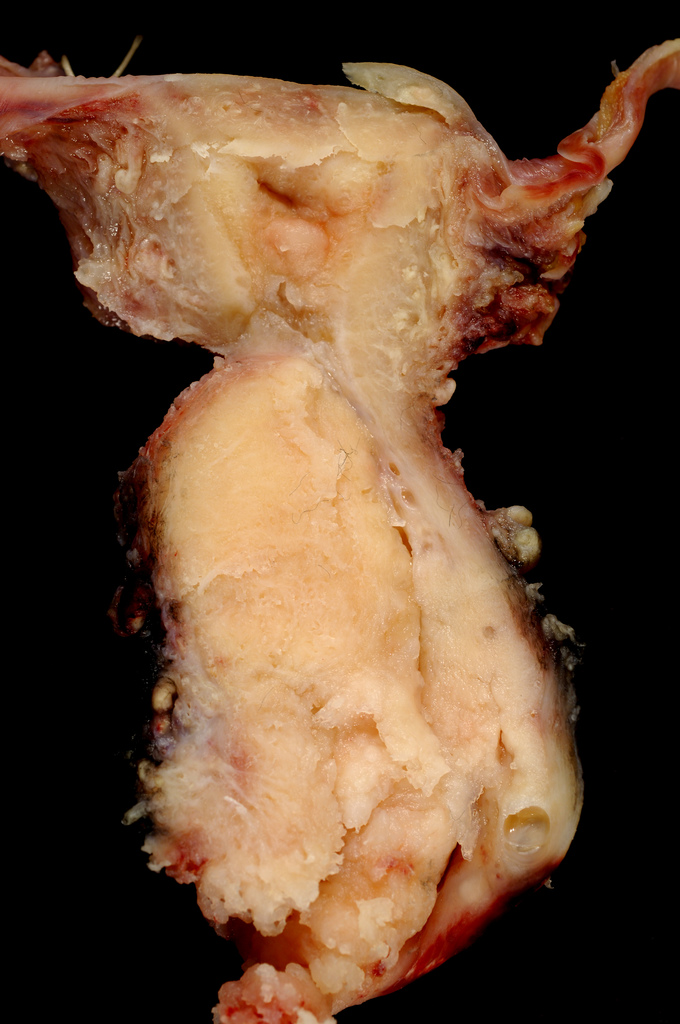 Squamous Carcinoma of Cervix